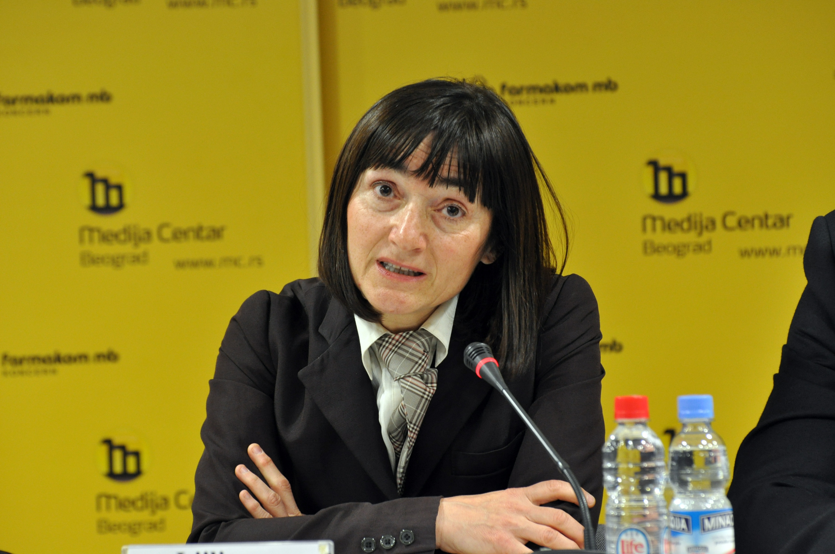 Ljiljana Smajlović